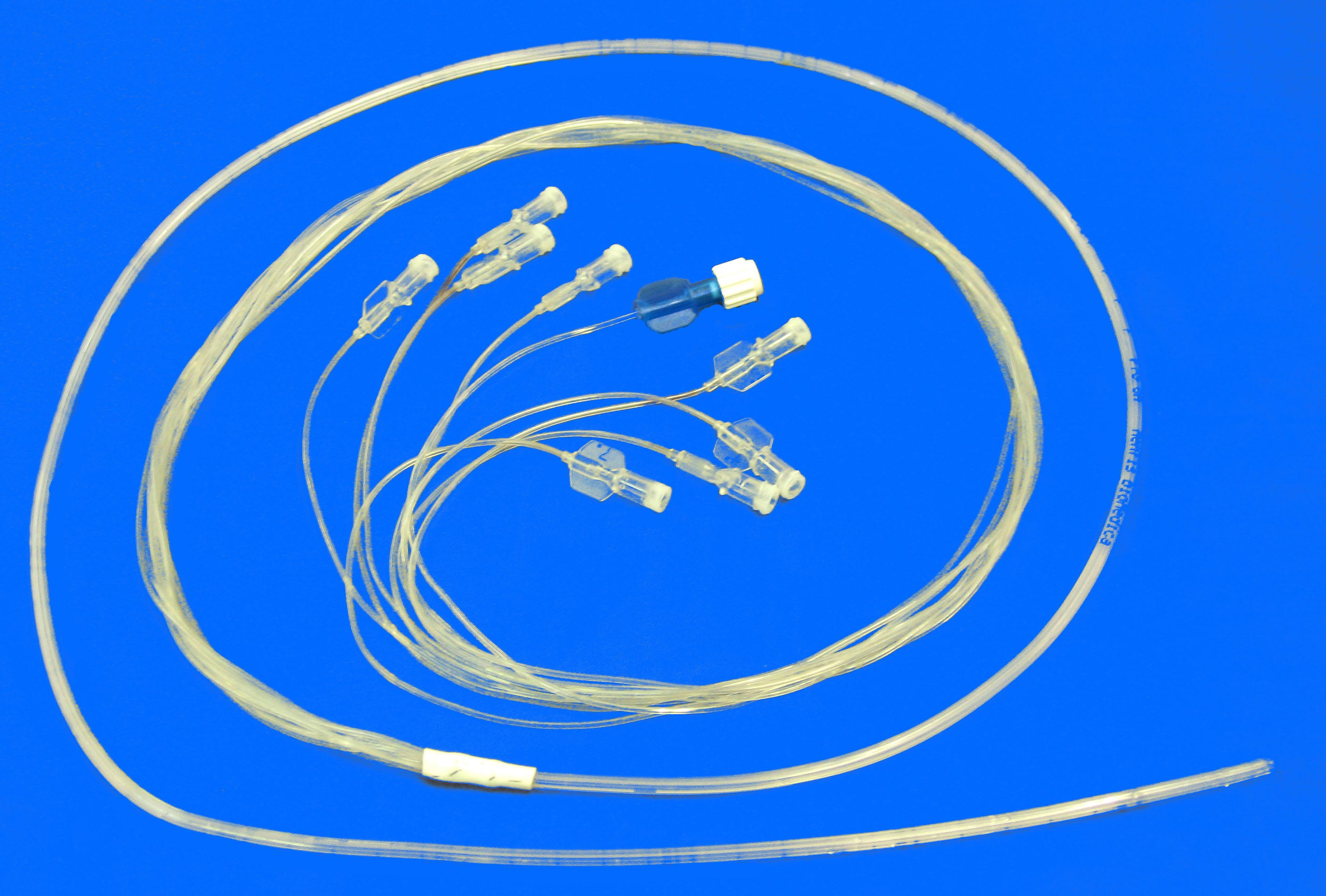 9-port catheter for esophageal manometry